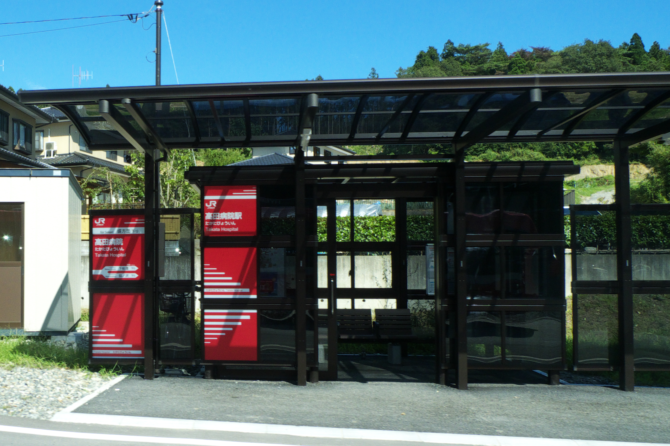 JR East Ofunato Line BRT Takata Byoin (Takata Hospital) Station